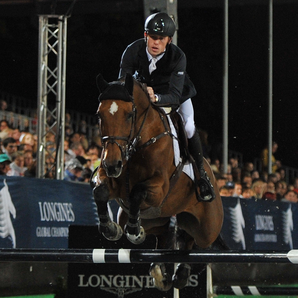 Vienna Masters am 21. September 2013 Longines Global Champions Tour Scott Brash (GBR) auf Ursula XII